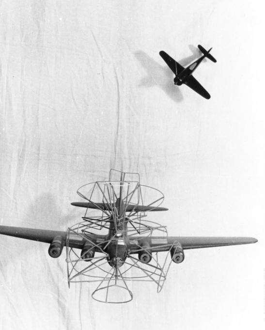 Aviation School - models of an American Boeing B-17E/F with lattice model (sphere of aircraft weapons) and model of a German Focke-Wulf Fw 190